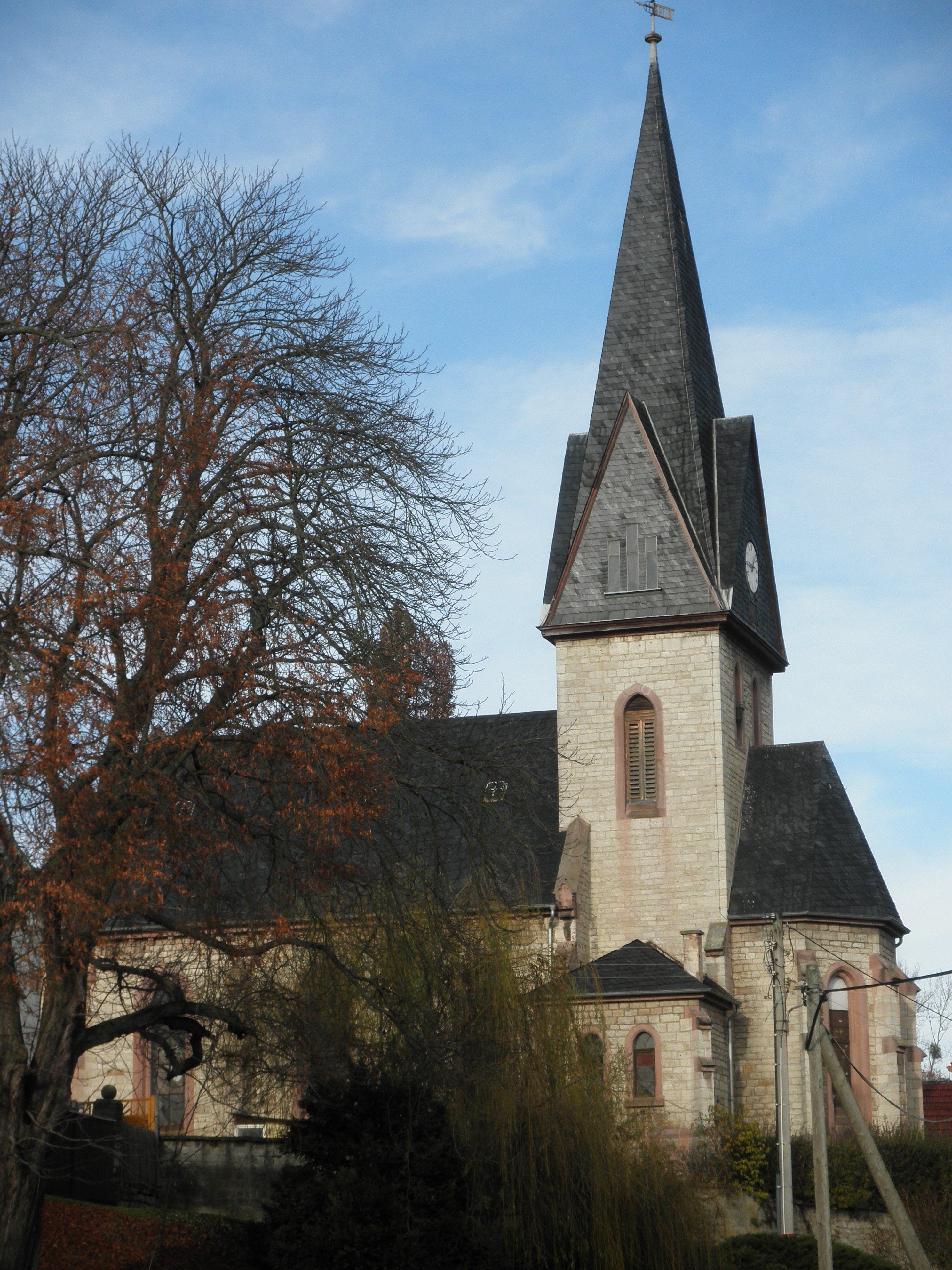 Church in Wiedermuth (Ebeleben) in Thuringia